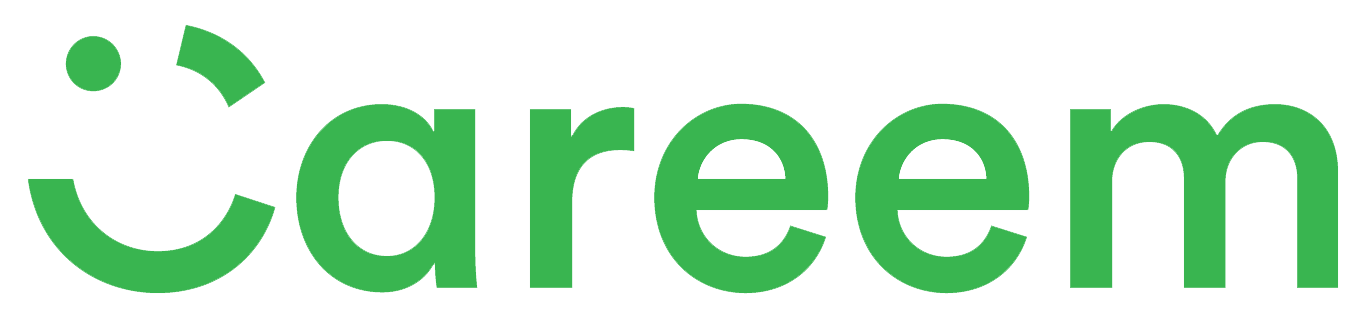 Careem logo